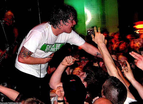 Comeback Kid live in Sputnikhalle, Münster May 6, 2006.